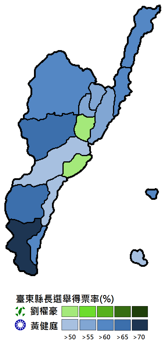 Taitung 2014 alternate